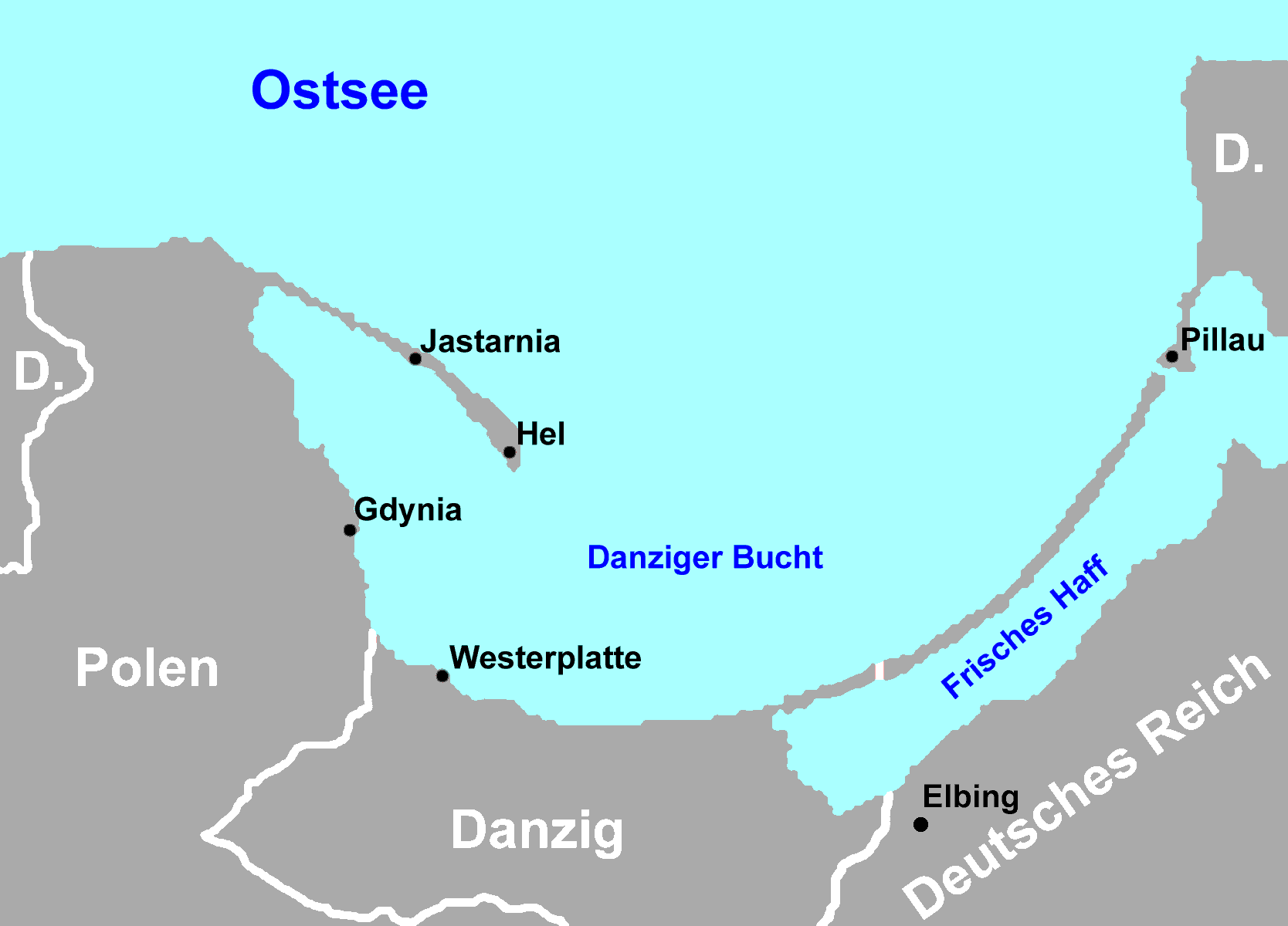 Map of the Gdańsk Bay in 1939. The Memel Territory was retransfered from Lithuania to Germany in March 1939.